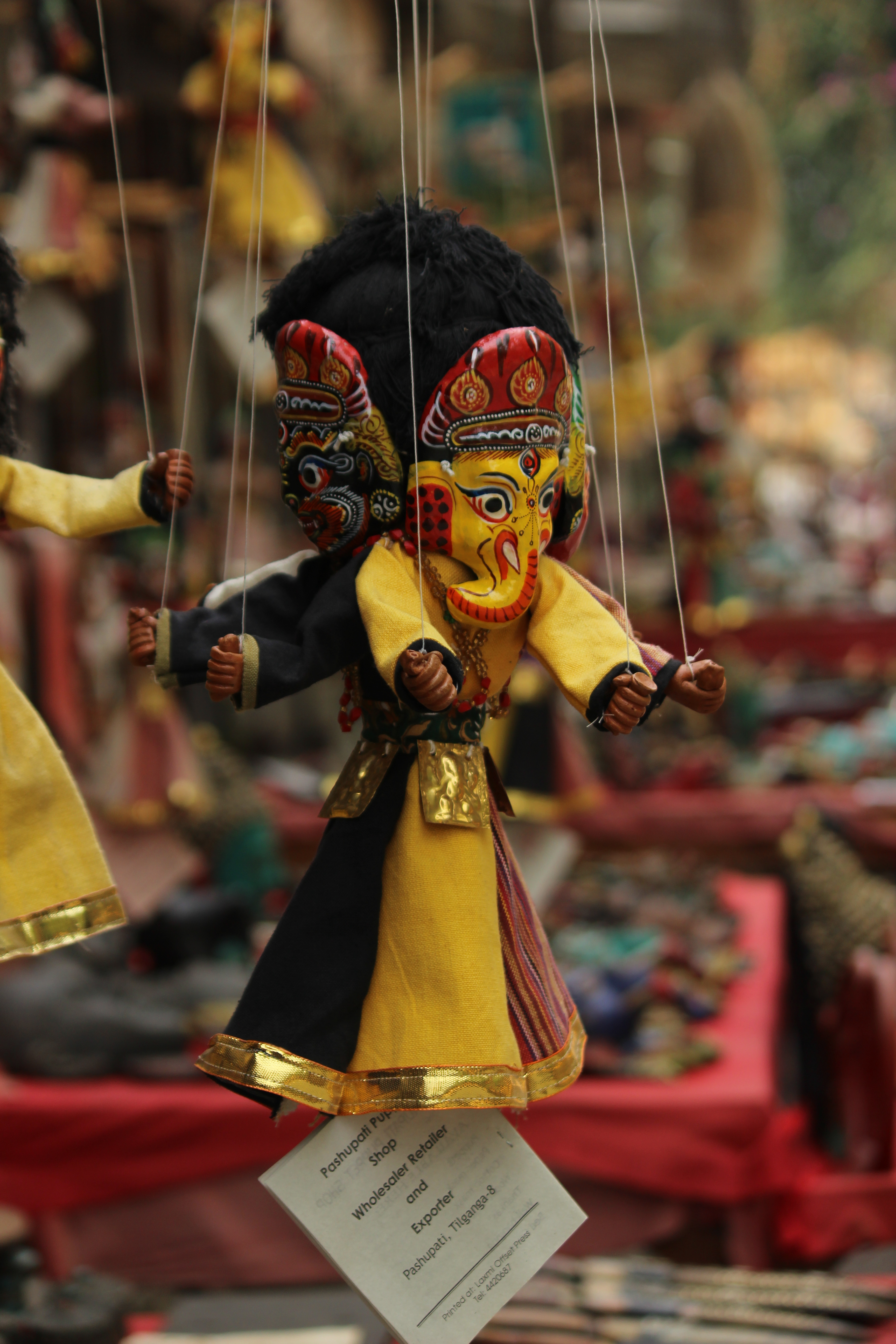 A puppet for sale at Pasupatinatha Temple, Kathmandu, Nepal